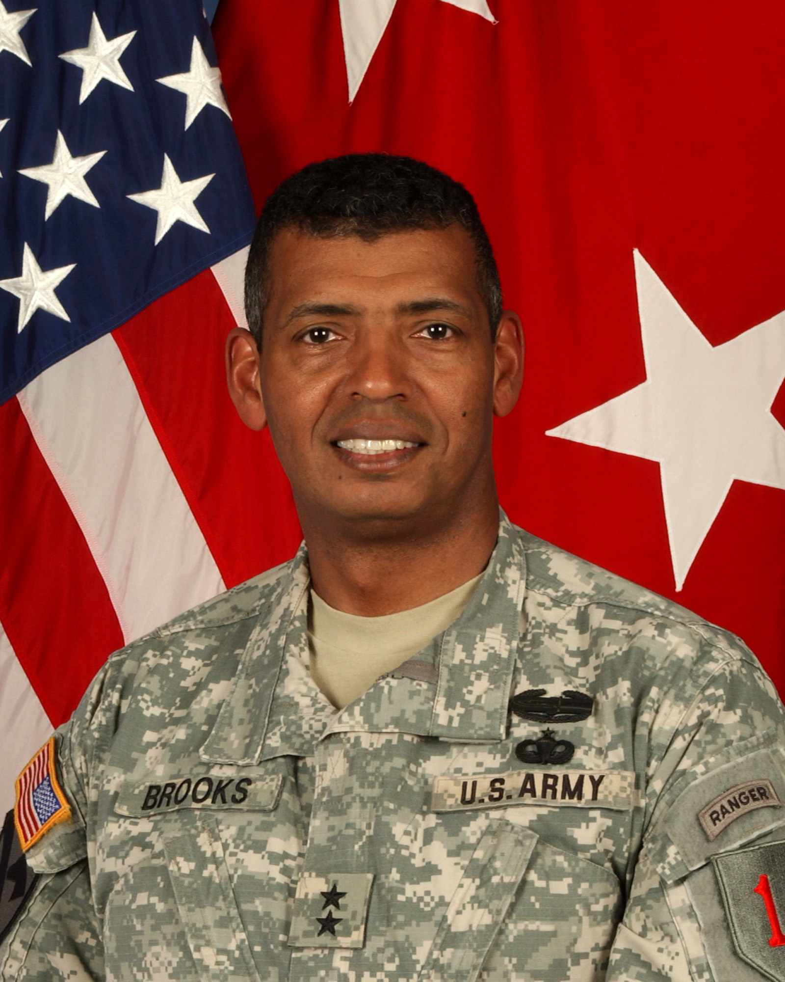 Major General Vincent K. Brooks, US Army, commanding general 1. Infantry Division (US)